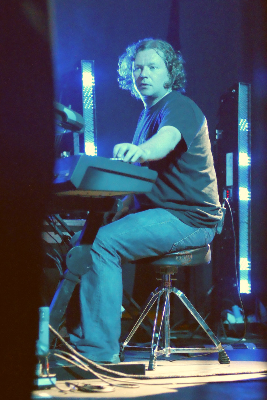 Tom Simpson of Snow Patrol playing at Rock City in Nottingham.